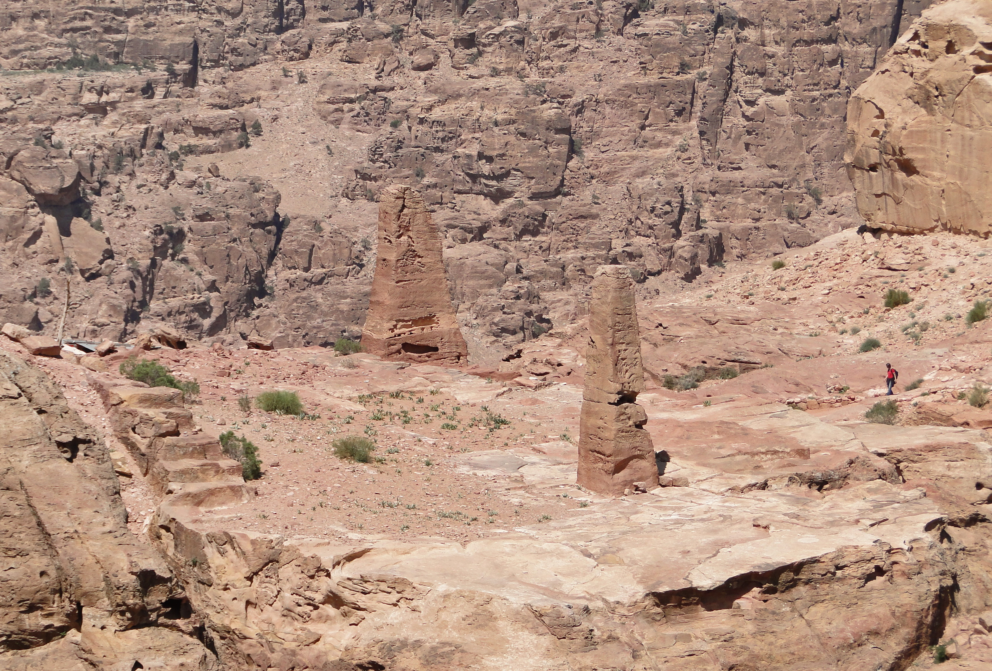 The two obelisks of the High Place of Sacrifice, Petra, Jordan